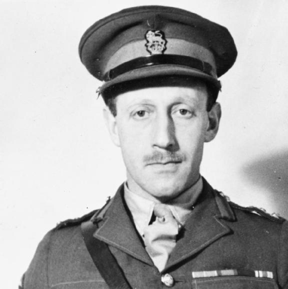 Head and shoulders portrait of Brigadier Edmund Charles Wolf Myers, Head of the SOE Military Mission to Greece 1942-1943.